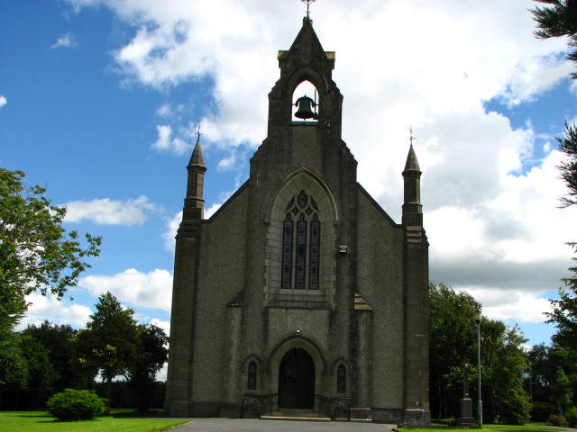 Moneenroe Church of the Sacred Heart, Moneenroe, County Kilkenny, Republic of Ireland. The foundation stone was blessed on November the fourth 1928, and the Church was dedicated September 14th 1930.The most striking feature inside this Church is the windows. Category:Churches in County Kilkenny